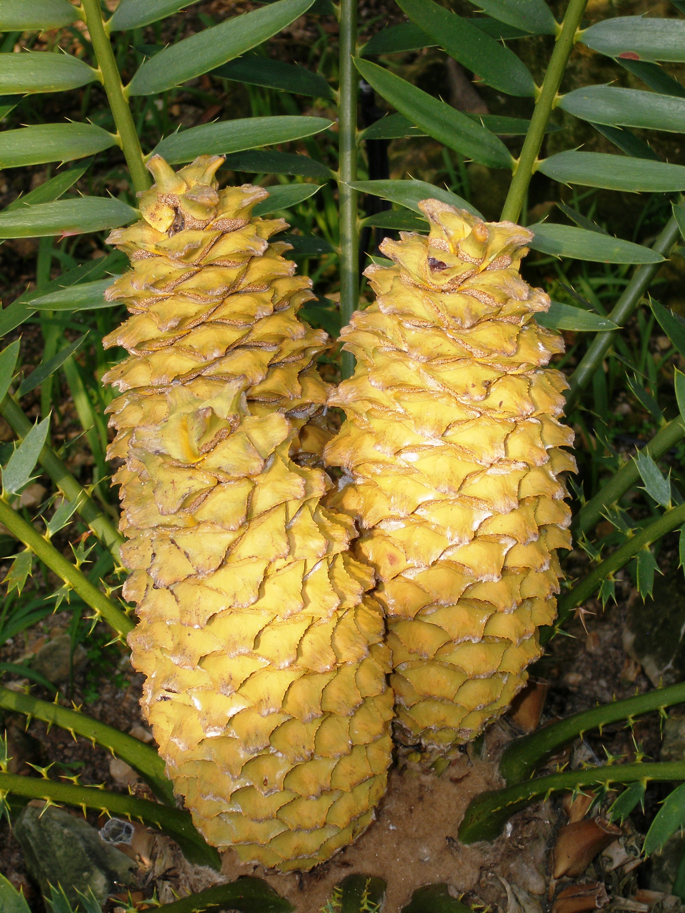 Specimen in cultivation at the Royal Botanic Gardens, Kew, United Kingdom.